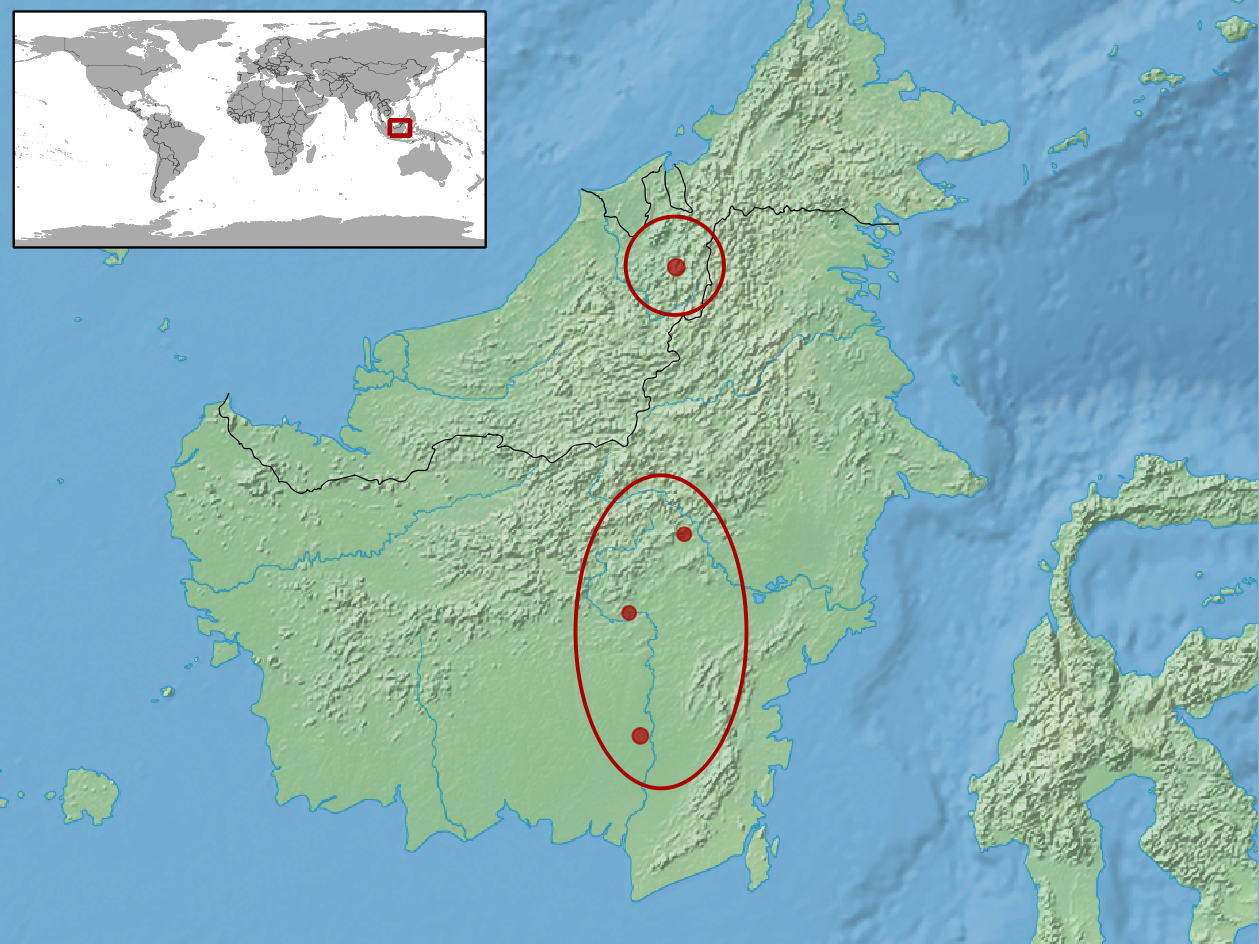 geographic distribution of Calamaria lumholtzi (Native: Indonesia (Kalimantan), Malaysia (Sarawak))